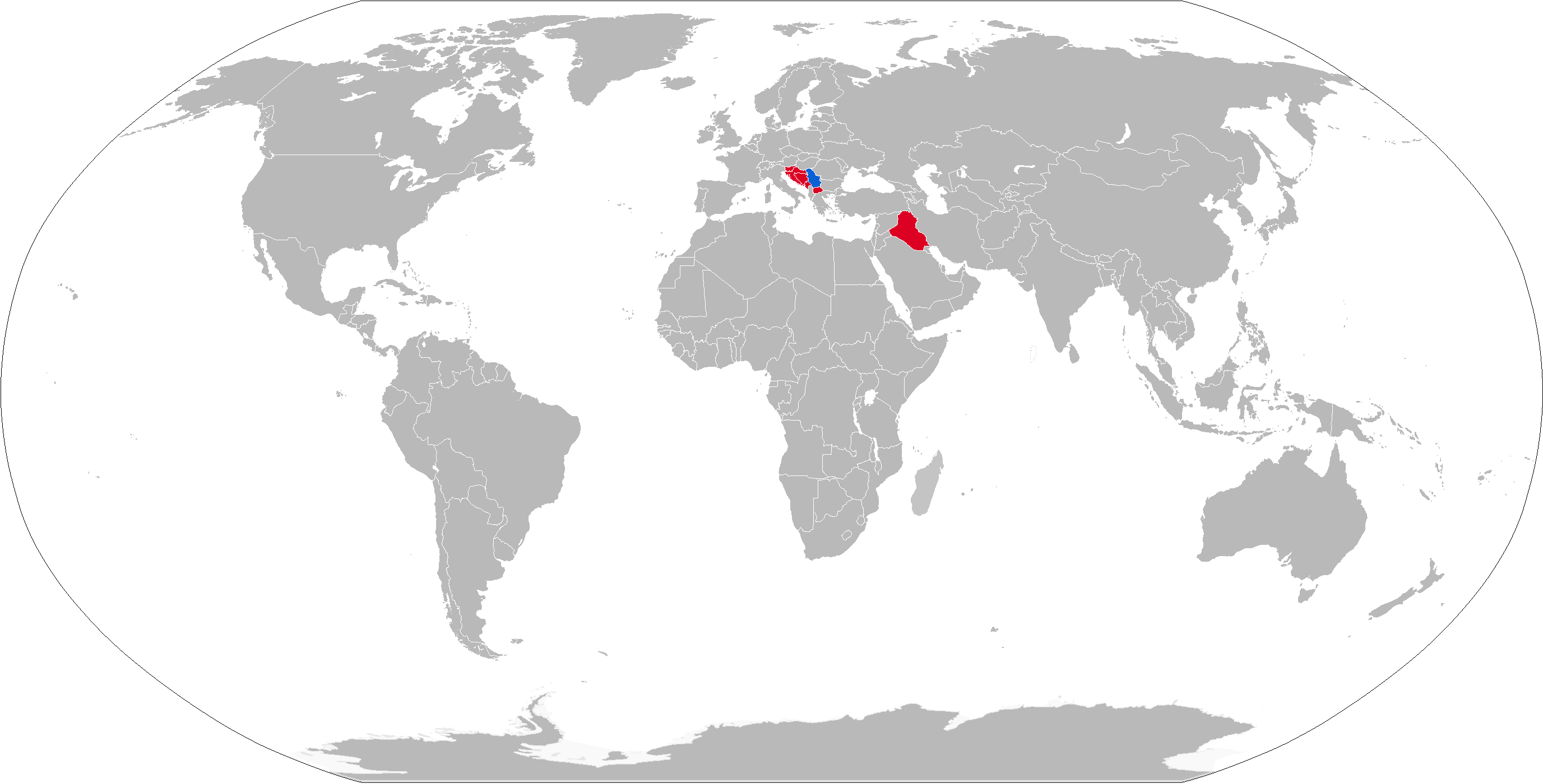 Map with M-87 operators in blue and former operators in red